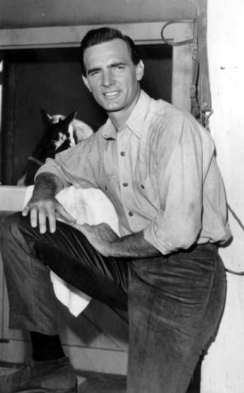 Photo of Dennis Weaver from the television program Kentucky Jones.